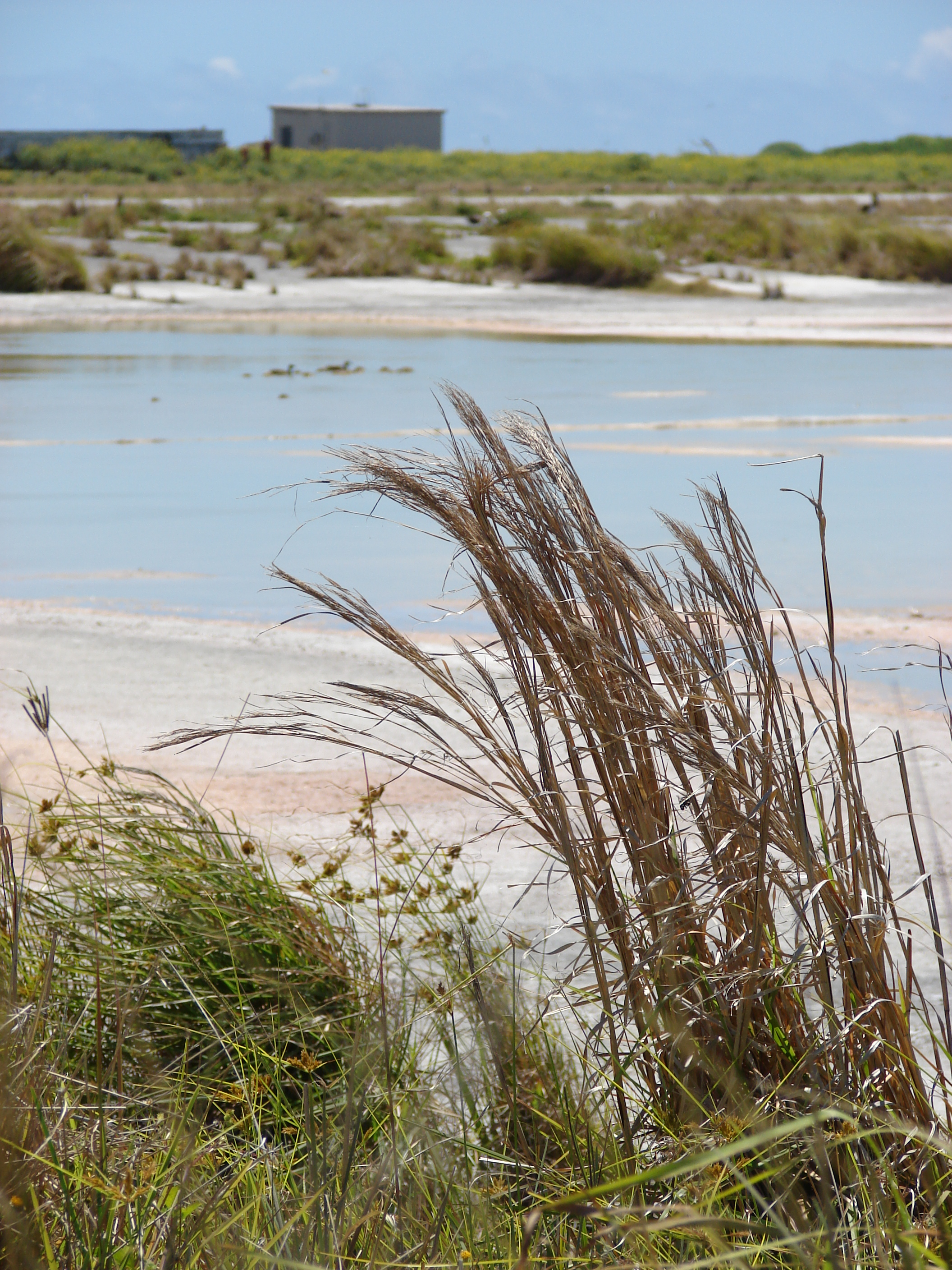 Andropogon virginicus (habit). Location: Midway Atoll, Water catchment Sand Island